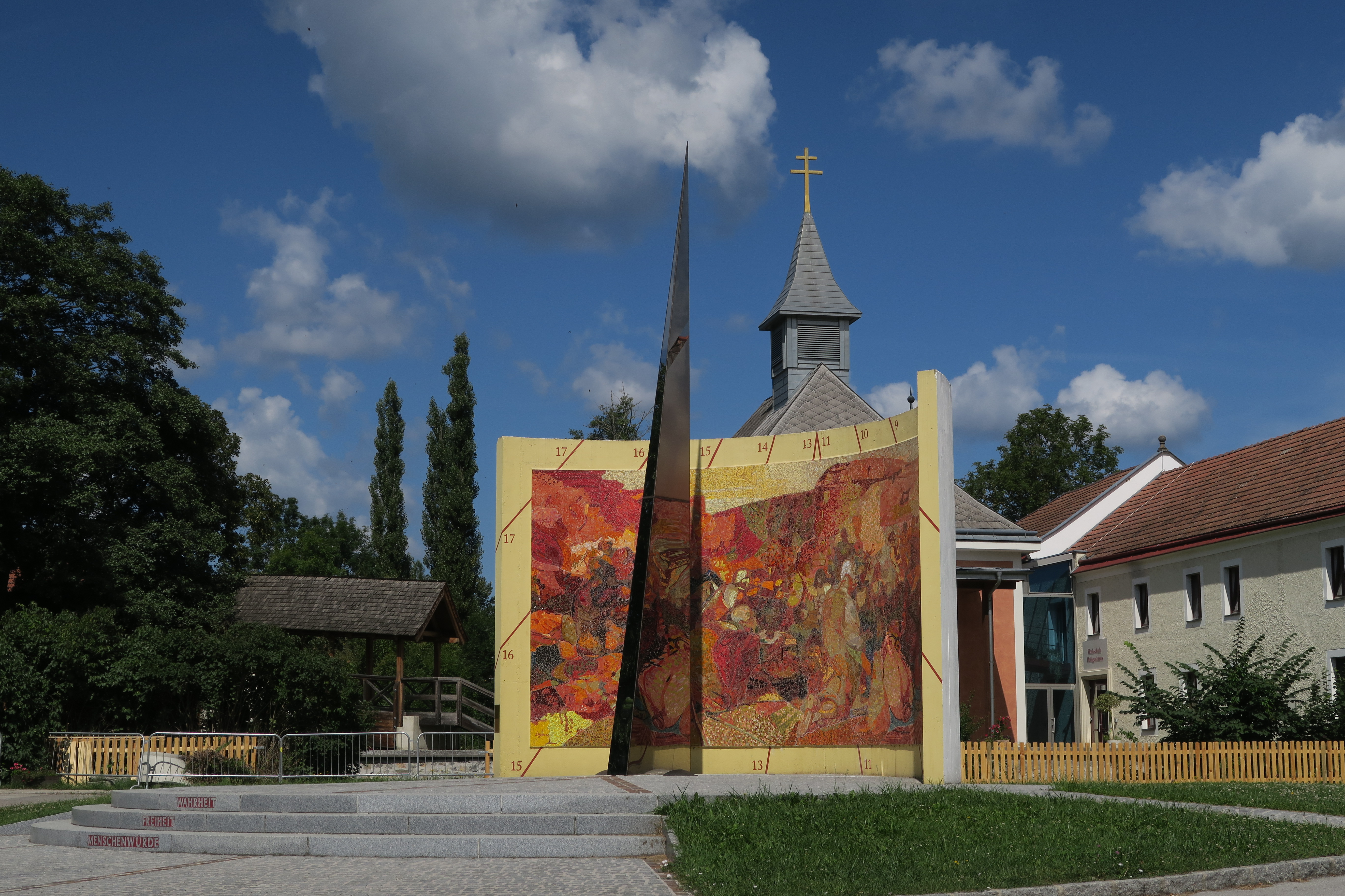 Heiligenkreuz Niederösterreich Lower Austria, construction of sundial part by Hellmuth Stachel.